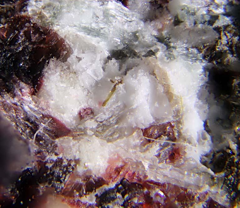 White crystals of the rare phosphate mineral natrophosphate associated to orange villiaumite from the type locality in Rasvumchorr (Rasvumtchorr, Khibiny, Kola, Russian Federation).